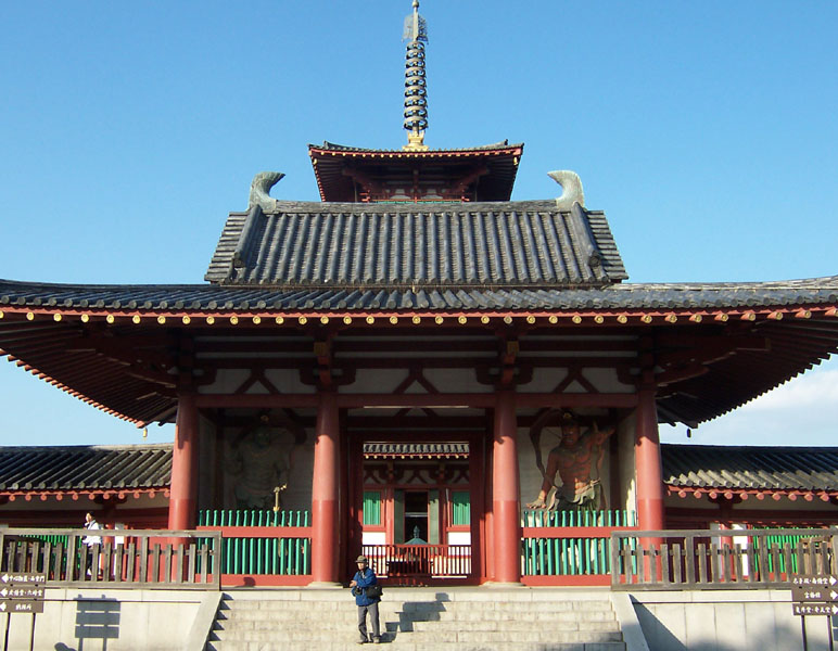 Main gate of Shitennoji castle